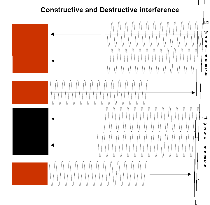 Diagram illustrating constructive and destructive interference of red light incident on a thin film of varying thickness -- from less than 1/4 wavelength to greater than 1/2 wavelength. See Francis Weston Sears, Optics, Addison-Wesley, 1949, for more information. Produced January 2006 by Patrick Edwin Moran.